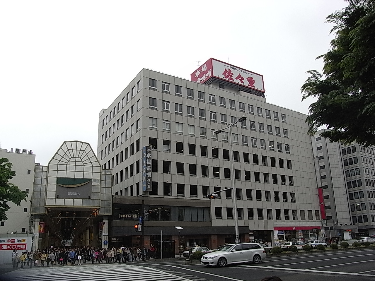 Ichibanchō Heiwa Building. Ichibanchō 3 chōme, Aoba ward, Sendai Miyagi prefecture, Japan. Built in 1973, It had been called Sasajū Building untill 2007.